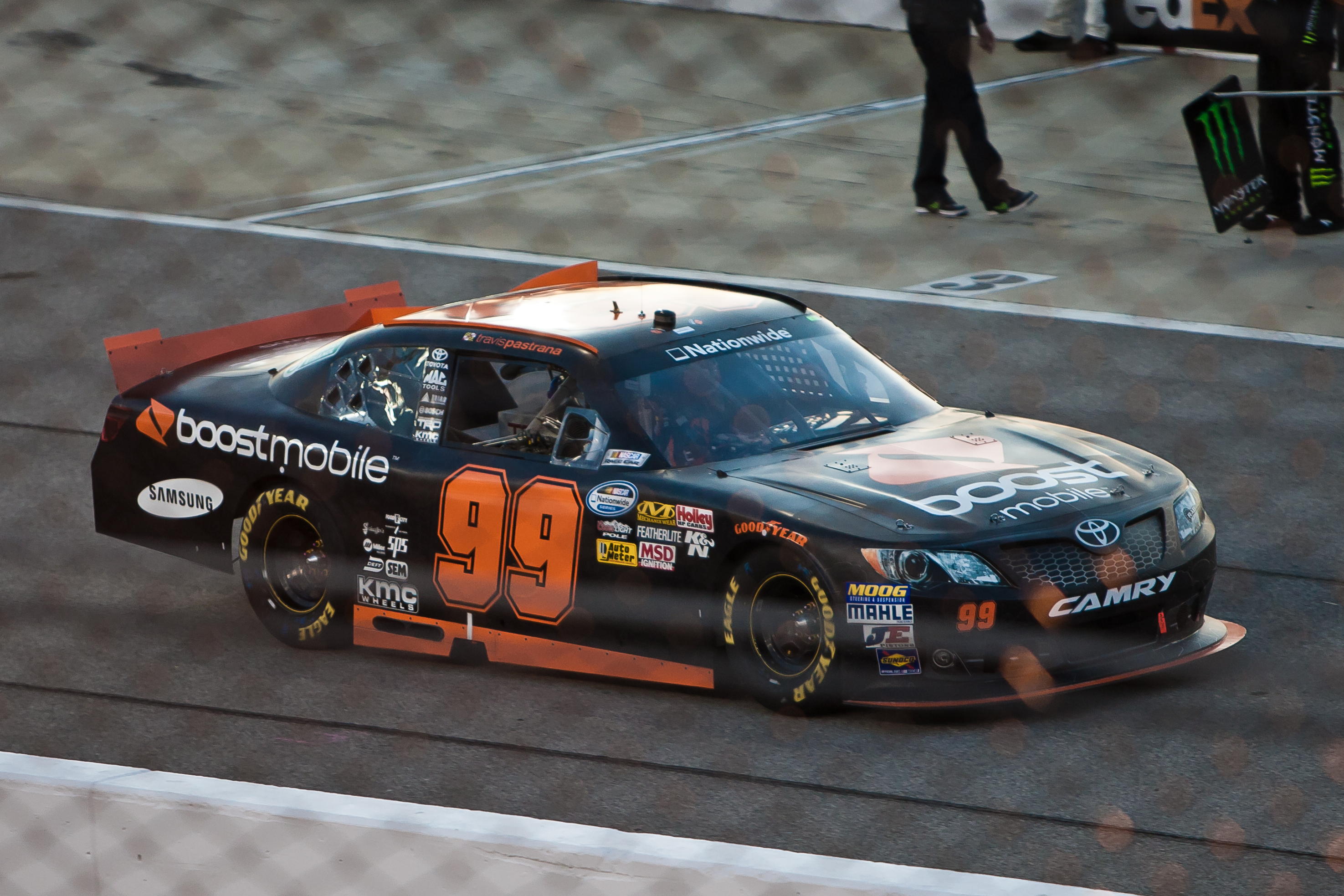 Travis Pastrana drives his NASCAR Nationwide Series No. 99 Boost Mobile Toyota down pit road and onto the racetrack at Richmond International Raceway during the Virginia 529 College Savings 250.